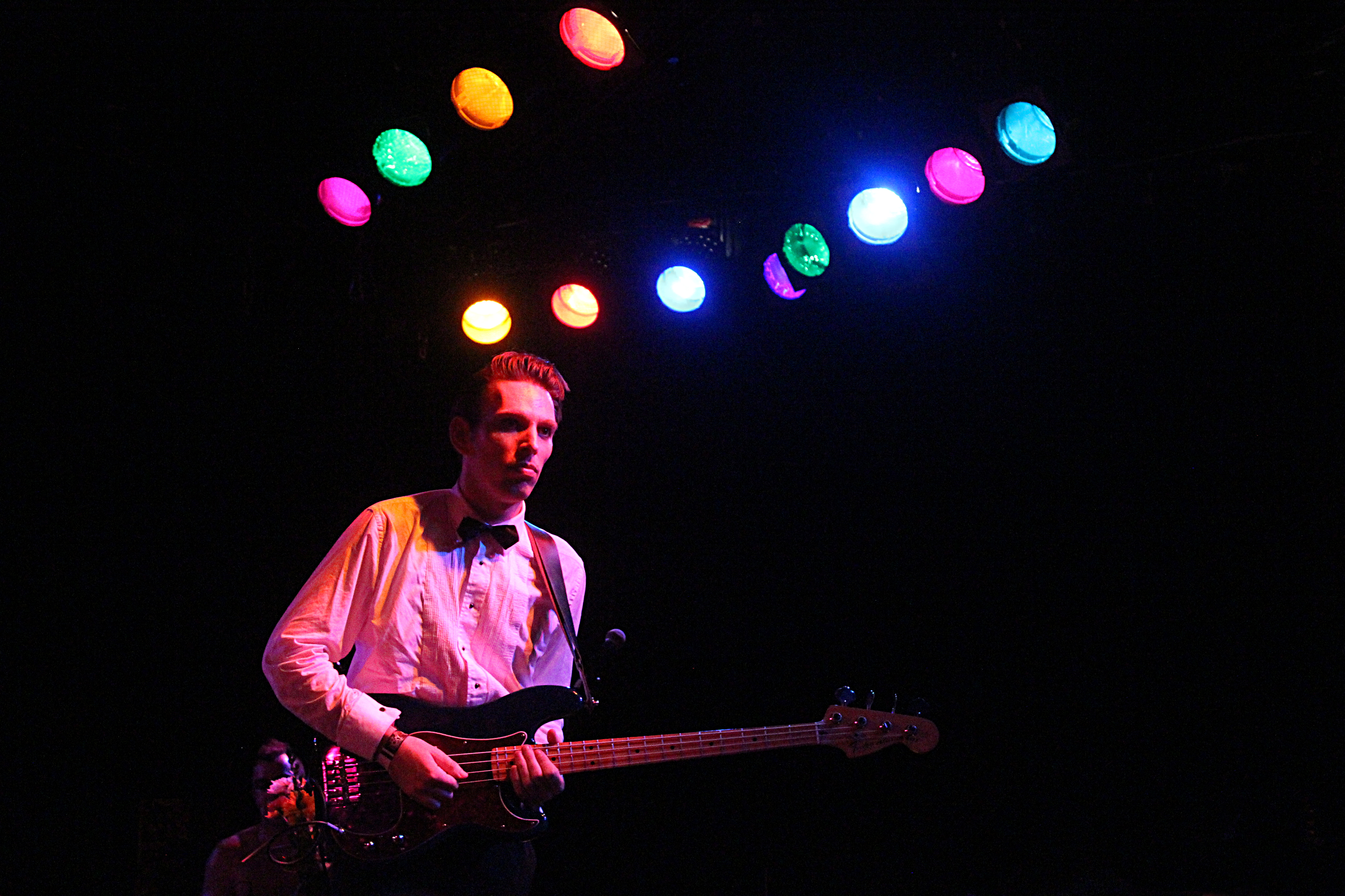 Jherek Bischoff playing bass with Amanda Palmer and the Grand Theft Orchestra at the Roxy Theater, West Hollywood, California, 18 July 2013.